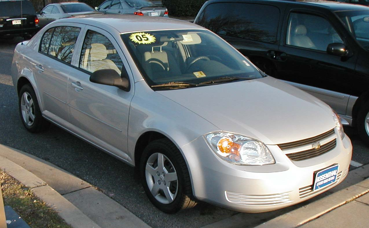 2005 Chevrolet Cobalt LS photographed in USA.